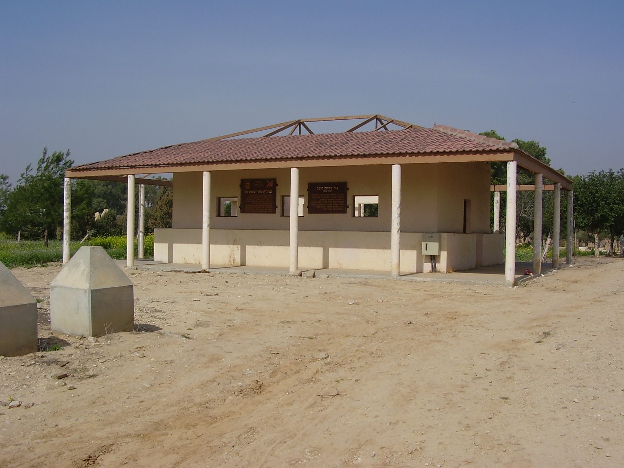 house of israel-egypt armistice commission (1950-1967) near gaza strip בית ועדת שביתת הנשק הישראלית -מצרים בשנים 1950-1967